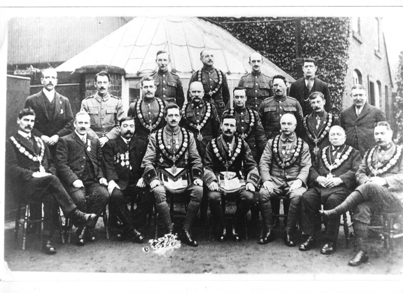 Photographic view of the Royal Antediluvian Order of Buffaloes Civil and Military Lodge, Whittington, Staffordshire. Courtesy of the Whittington HIstory Society, Whittington, Staffordshire